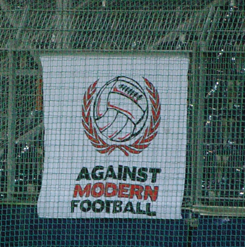 supporters banner Hapoel Tel Aviv